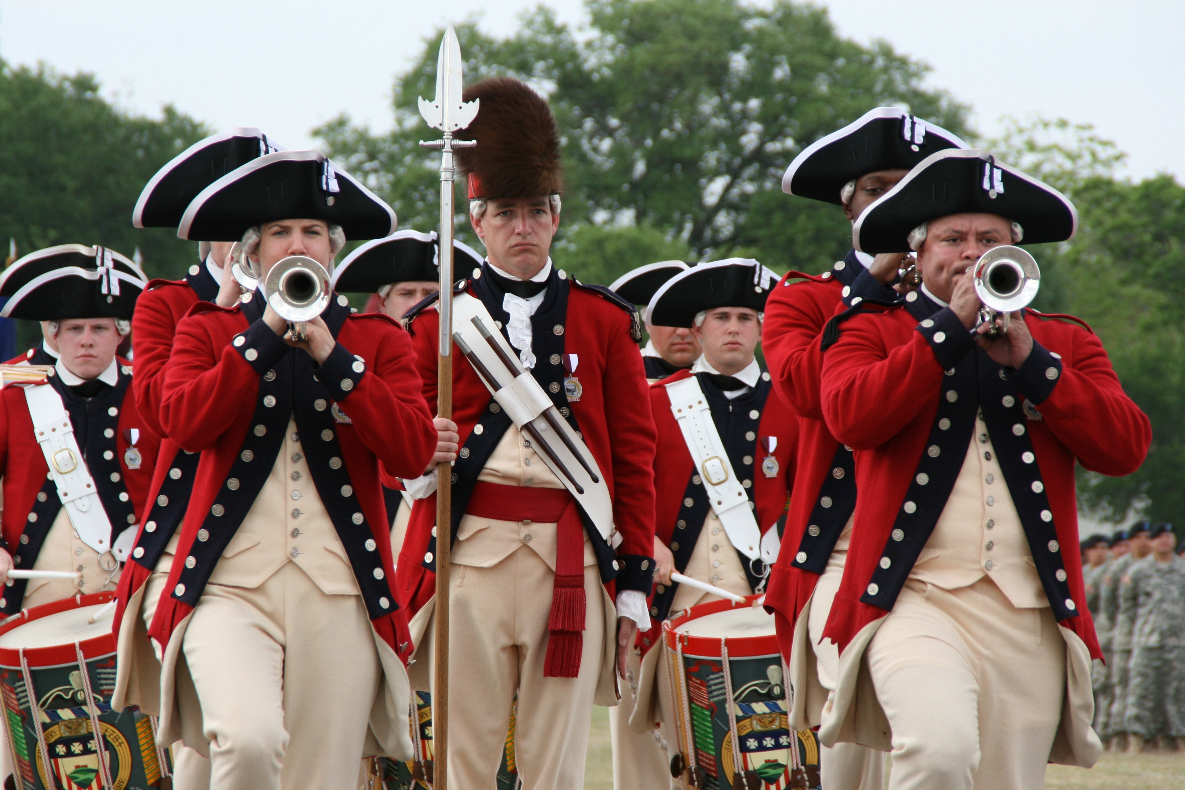 The Old Guard Fife and Drum Corps, a specialty unit of the 3rd U.S. Infantry Regiment (The Old Guard) at Fort Myer, Va., thrill the audience with their musical skills during the military ceremony. The musicians of this unit recall the days of the American Revolution as they parade in uniforms patterned after those worn by the musicians of Gen. George Washington's Continental Army.